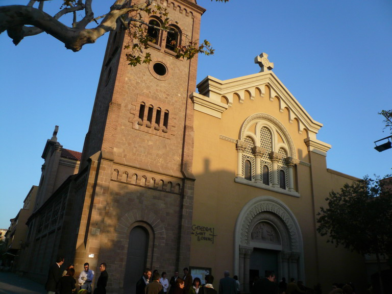 Sant Llorenç Cathedral, Sant Feliu de Llobregat, Baix Llobregat, Catalonia